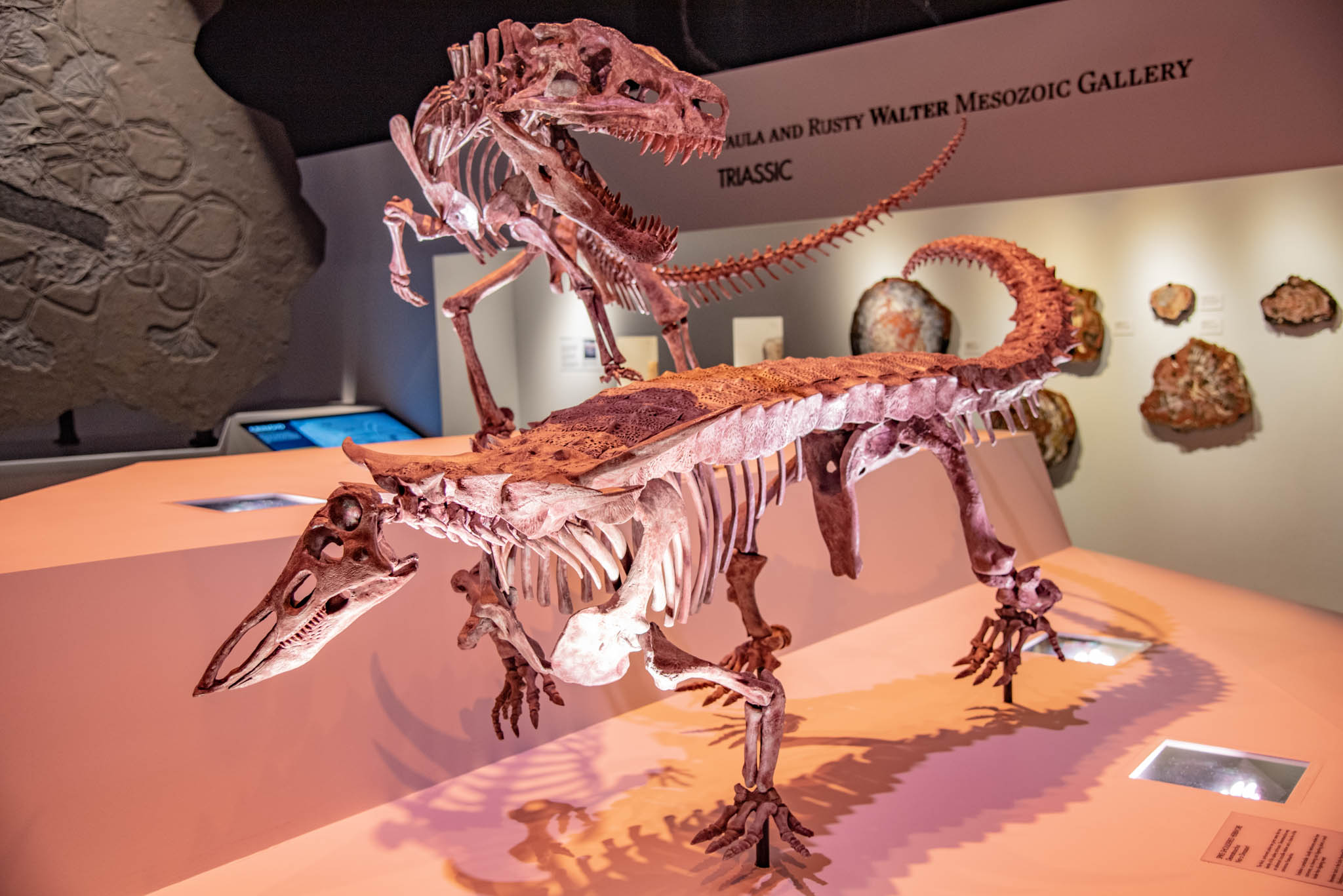 Casts of Postosuchus and Desmatosuchus on display at the Houston Museum of Natural Science, Houston, Texas, USA